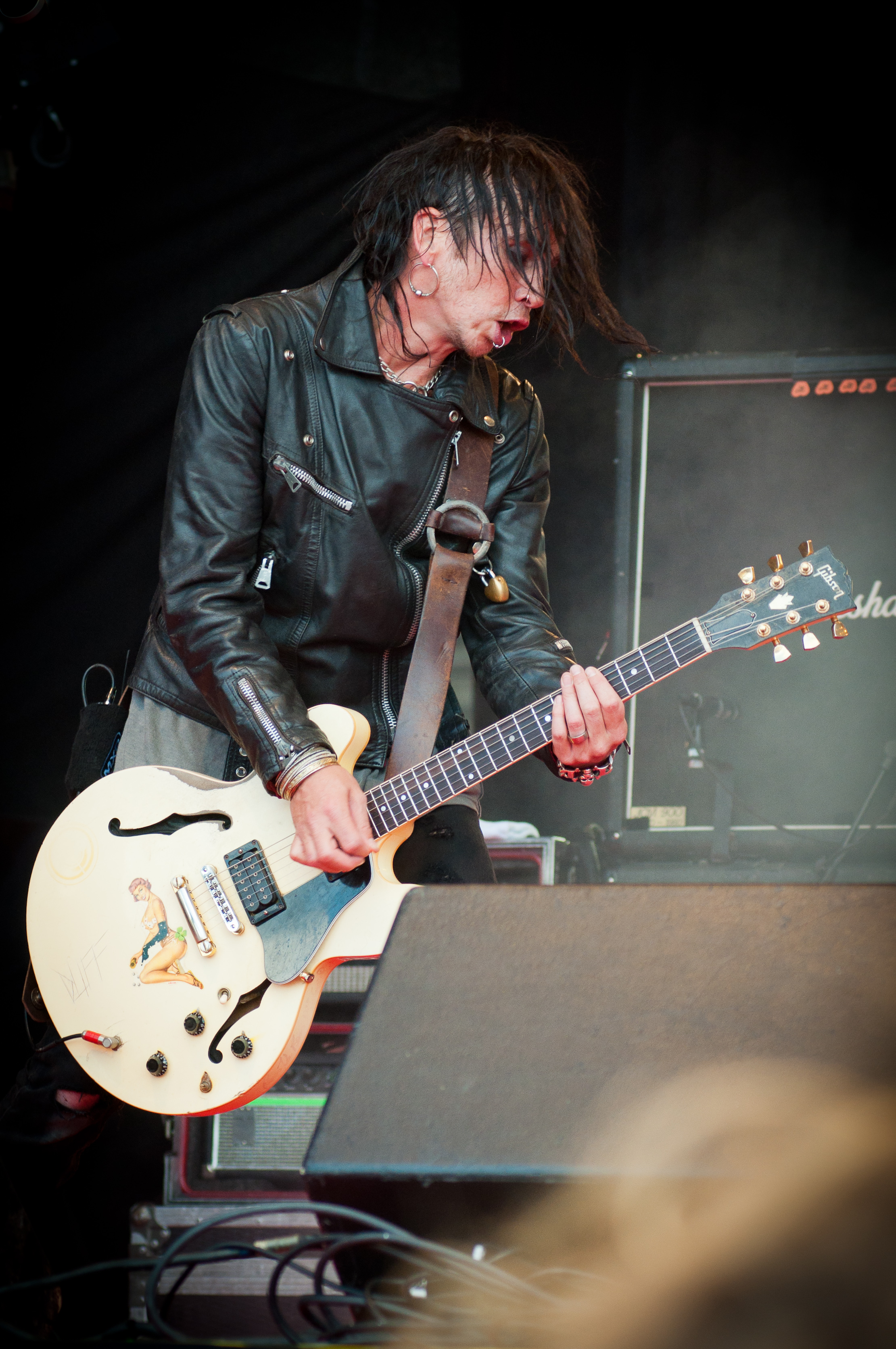 Swedish guitarist Dregen performing at the 2011 Ilosaarirock festival in Joensuu, Finland with Michael Monroe.